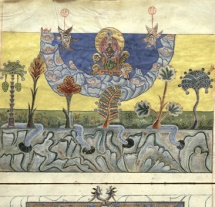 Paradise - Armenian 1693